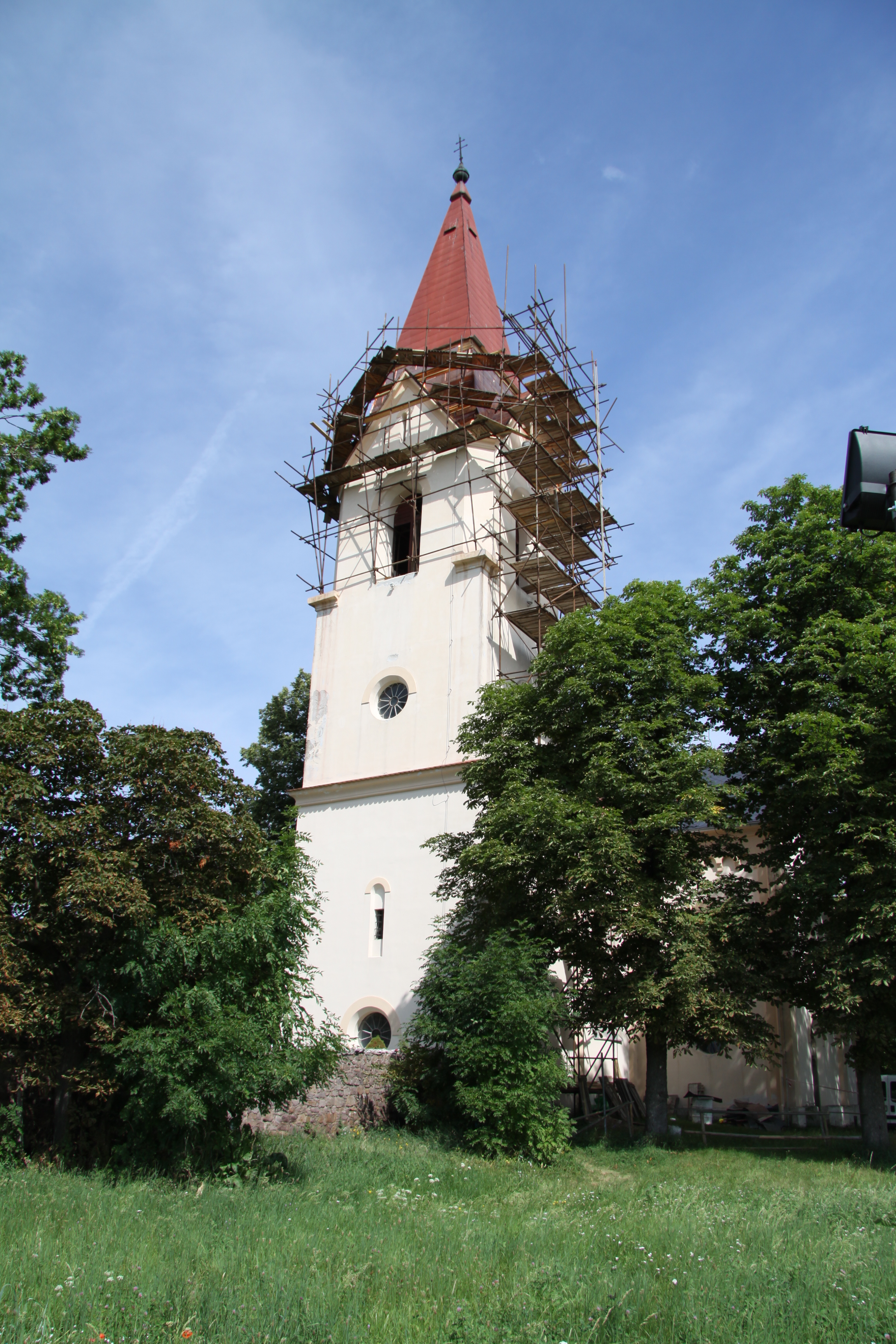 Church of Holy Trinity in Hluboš village in Příbram District, Czech Republic.